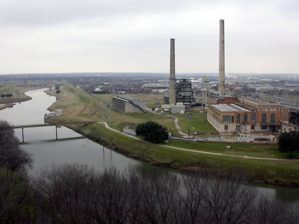 The Trinity River (Texas) north of downtown Fort Worth, Texas